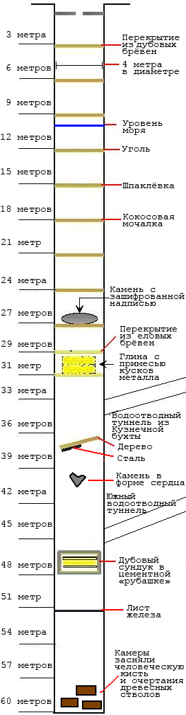 Money Pit of Oak Island. Russian version.